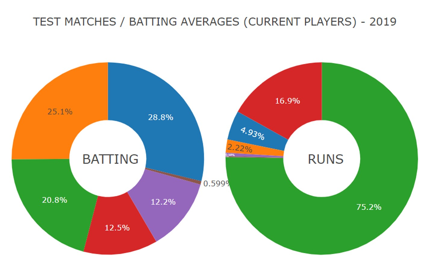 TEST MATCHES / BATTING AVERAGES (CURRENT PLAYERS) - 2019 records of five players analysis is been shown.